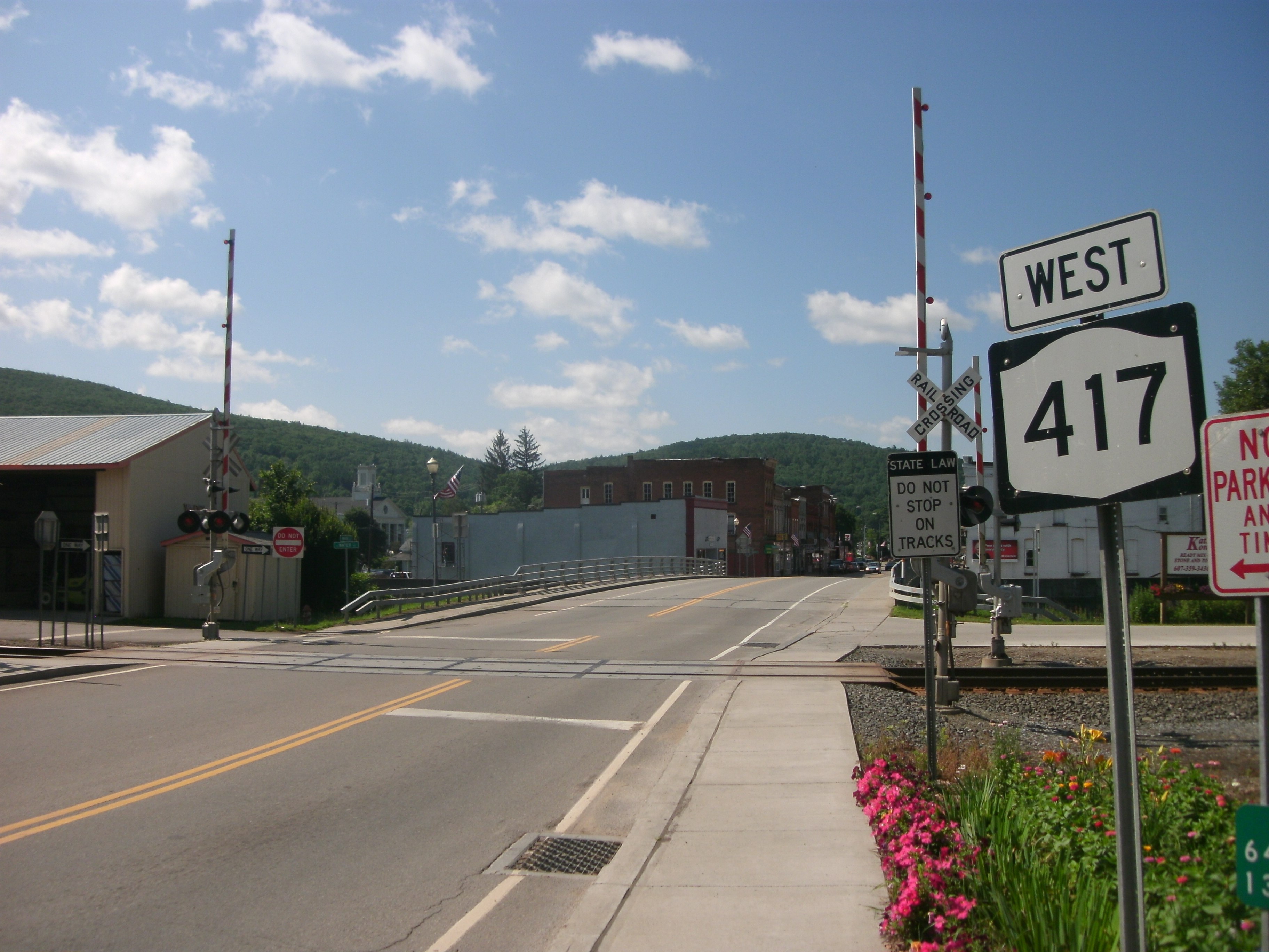 New York State Route 417 westbound as it approaches downtown Addison, New York.